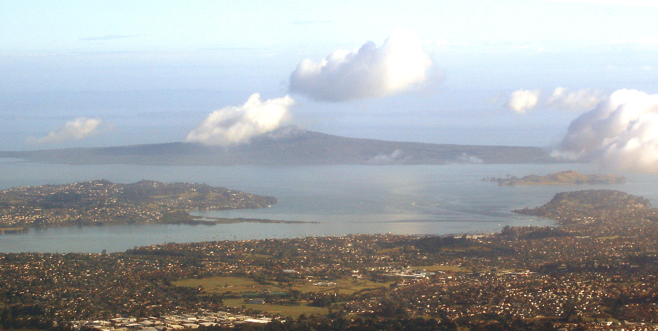 From final approach to Auckland Airport